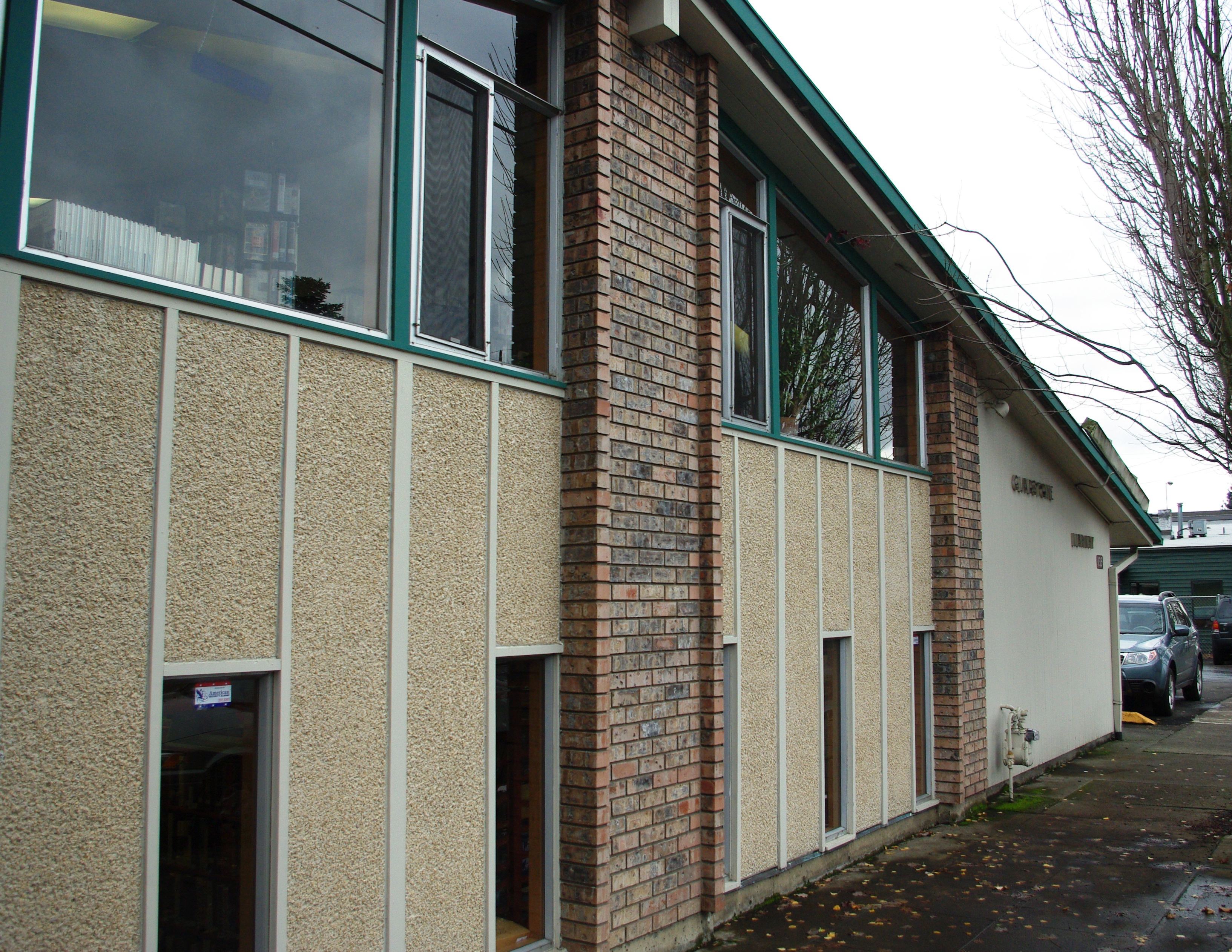 Public library in Gladstone, Oregon, USA.